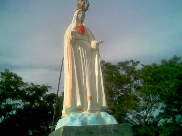 The statue of the Our Lady of Fatima, shot on location at Fatima Hills, Brgy. Ichon.